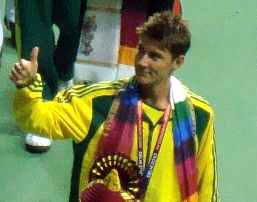 Matthew Ebden. A tennis player of Australia